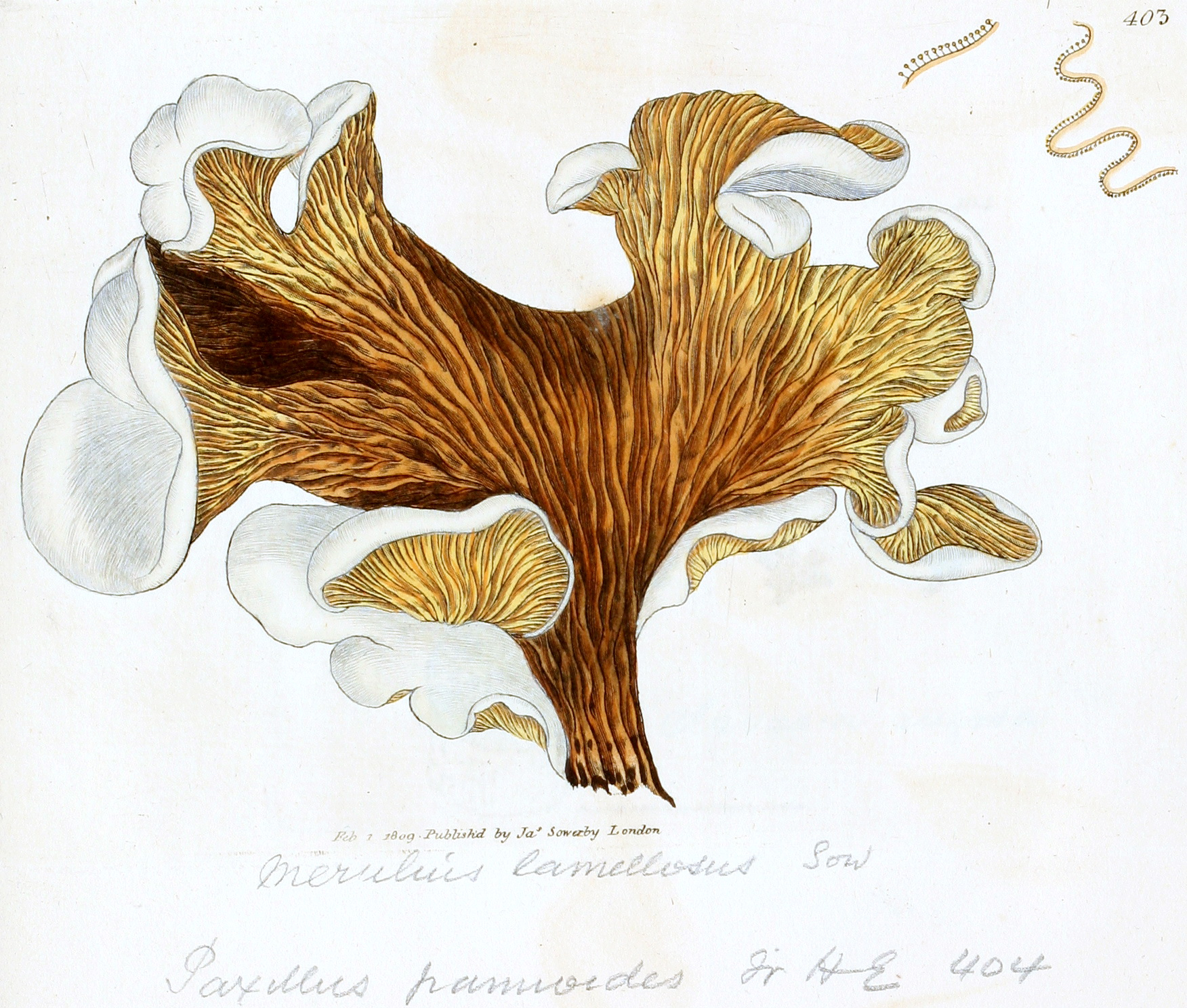 Tapinella panuoides (as Merulius lamellosus)